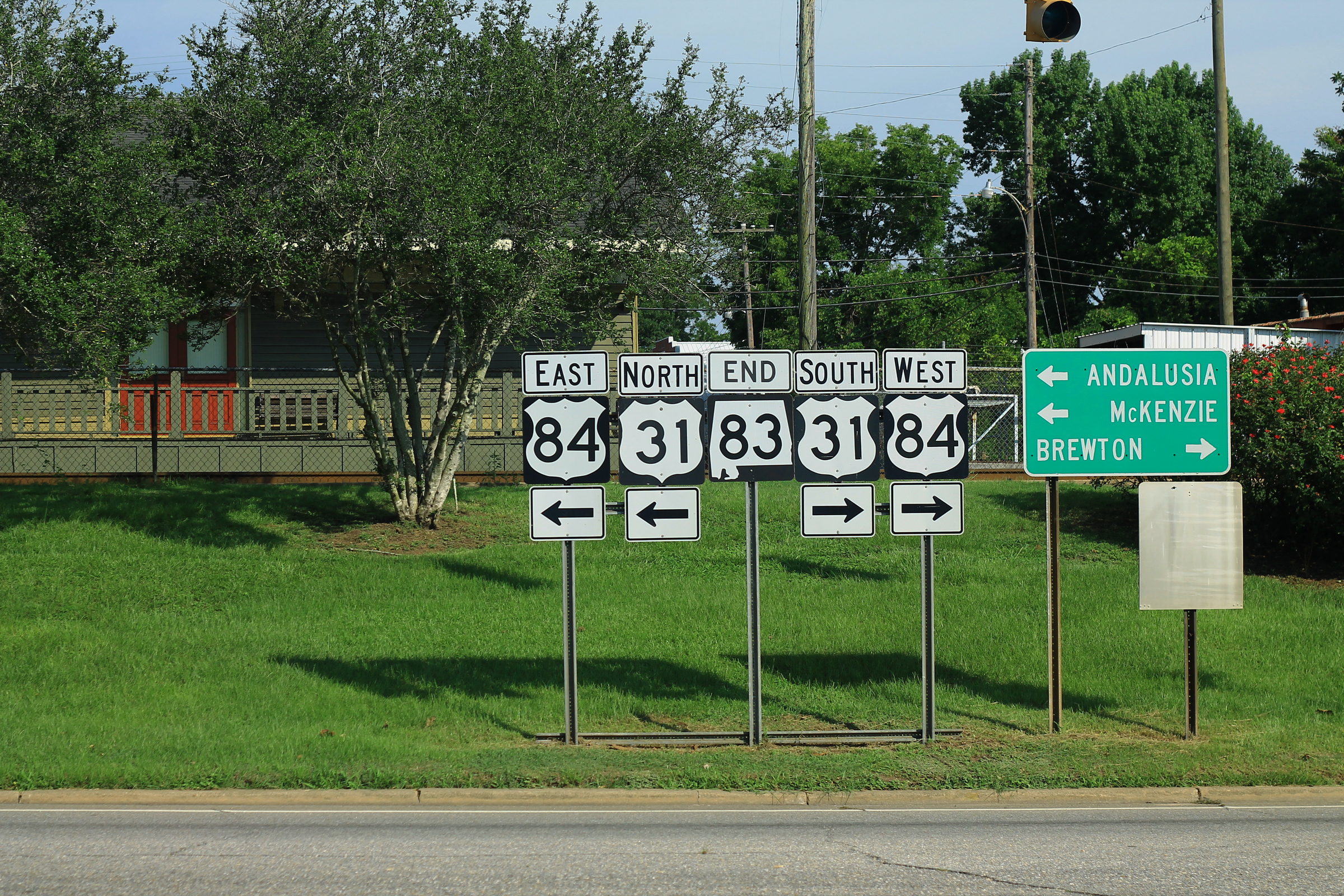 AL83 South End - US84 US31 Signs - Evergreen